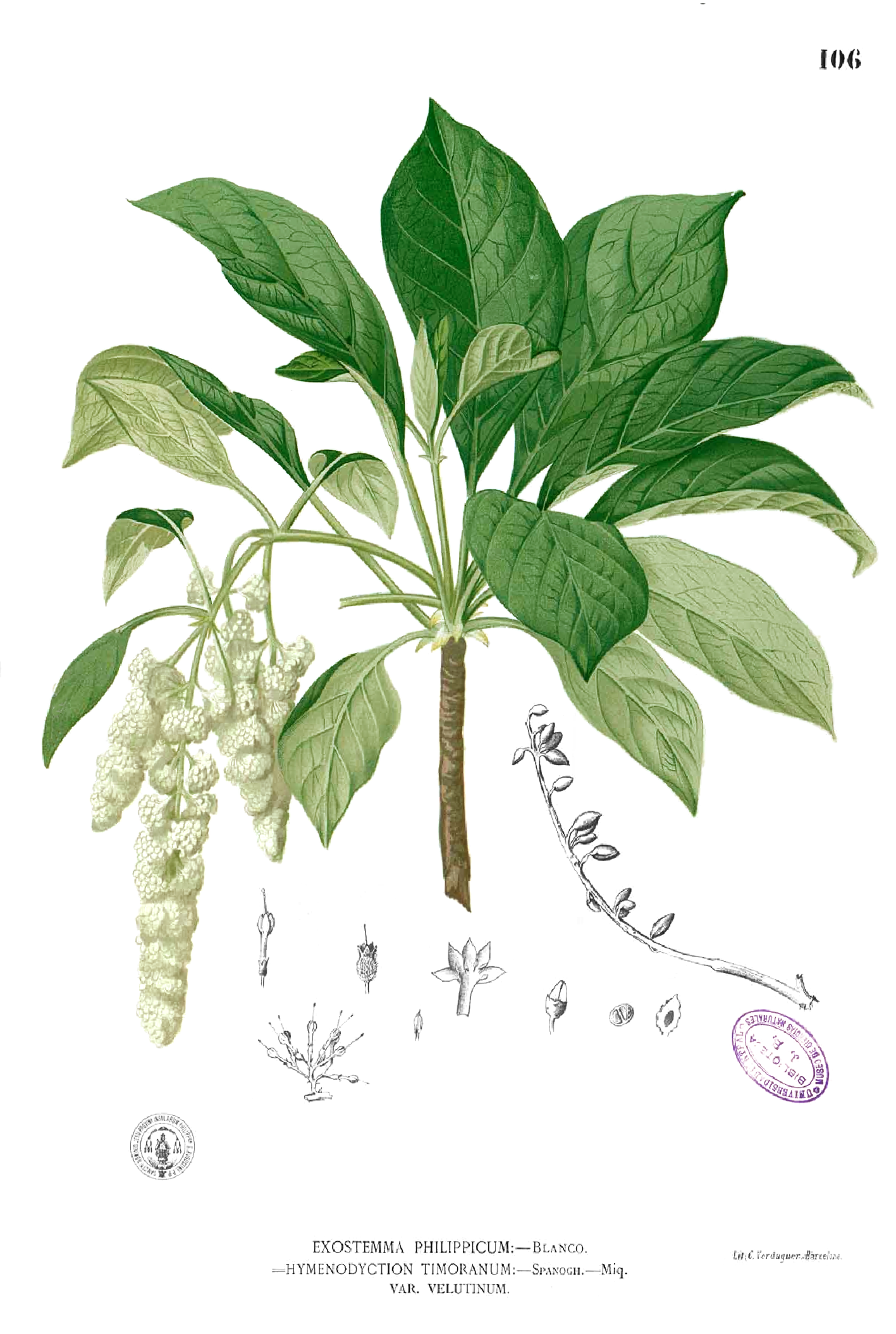 Plate from book